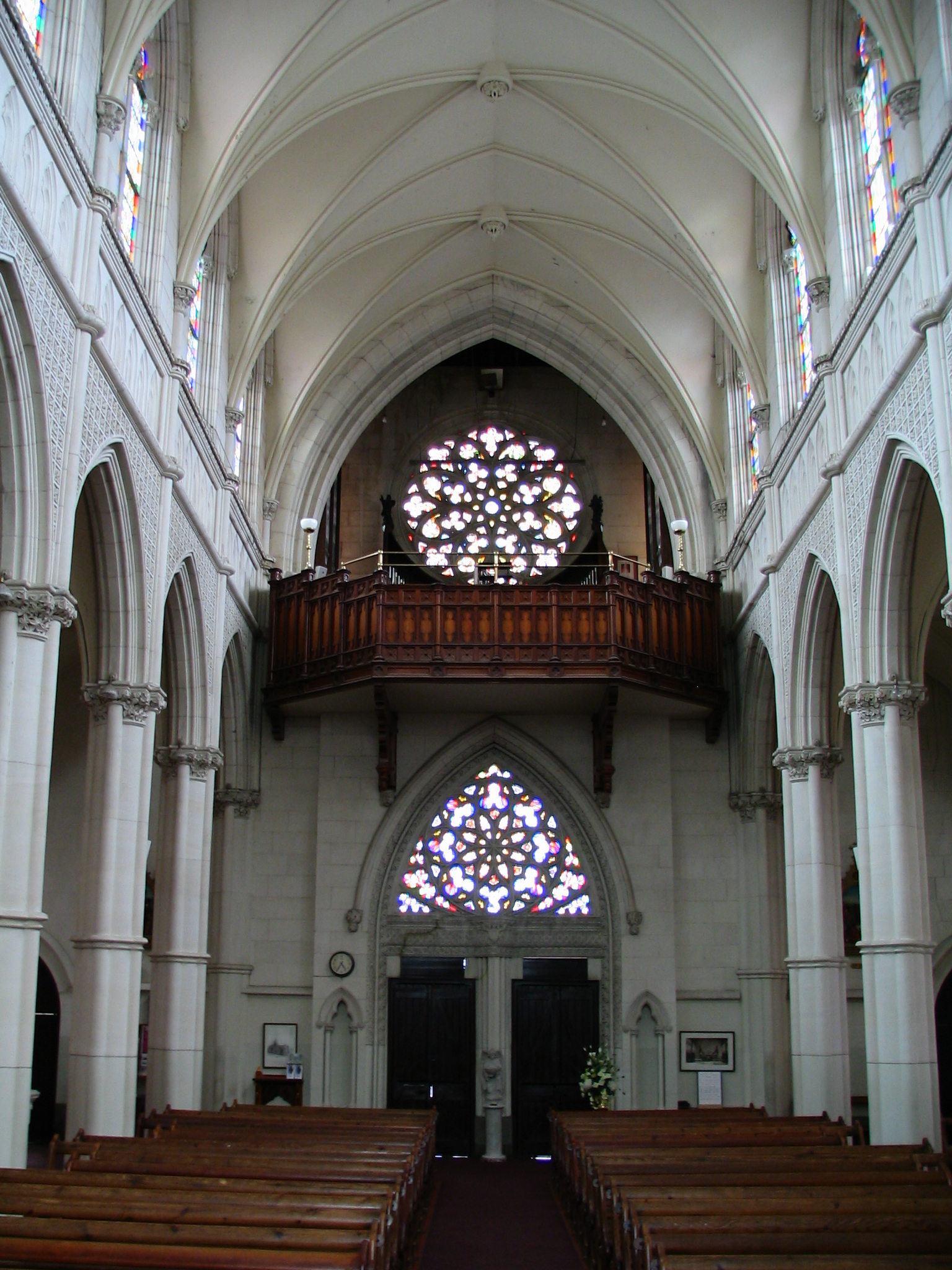 Interior view of St. Joseph's Cathedral, Dunedin, New Zealand, looking towards the entrance